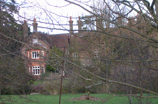 Manor House, Billington UK. Photographed by uploader. The Manor House. built by Arthur Macnamara at Billington, Bedfordshire.